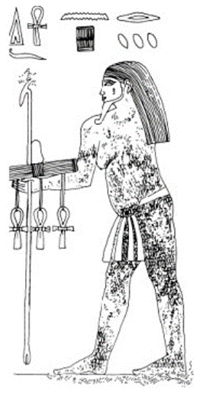 Rare depiction of Nepri as a matured man with the iconic 3 grain-symbol description above his head